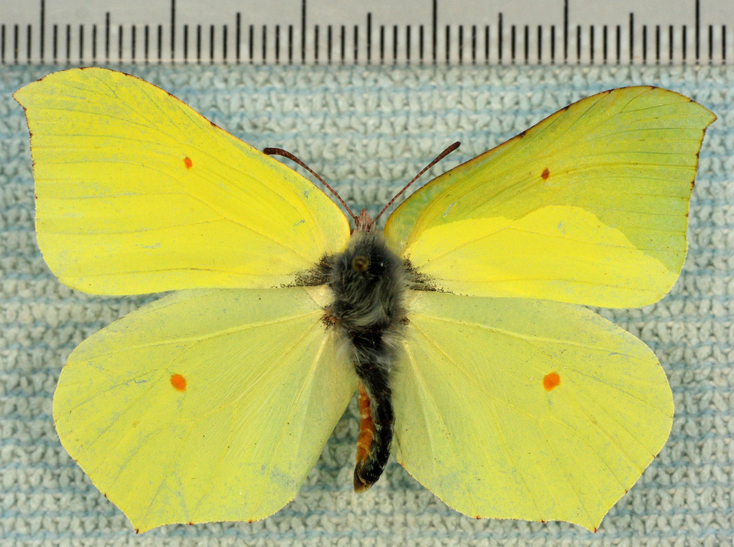 Male Common Brimstone Gonepteryx rhamni